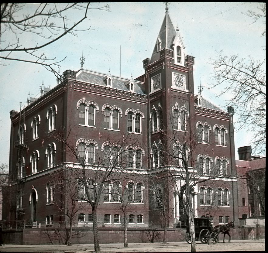 View of the Charles Sumner School, 17th and M Streets, NW, Washington, D.C. Designed by Adolph Cluss the school was constructed in 1872 and was the first public school building erected for the education of the District's black population. Today the building houses a museum dedicated to the DC Public School system and conference center.